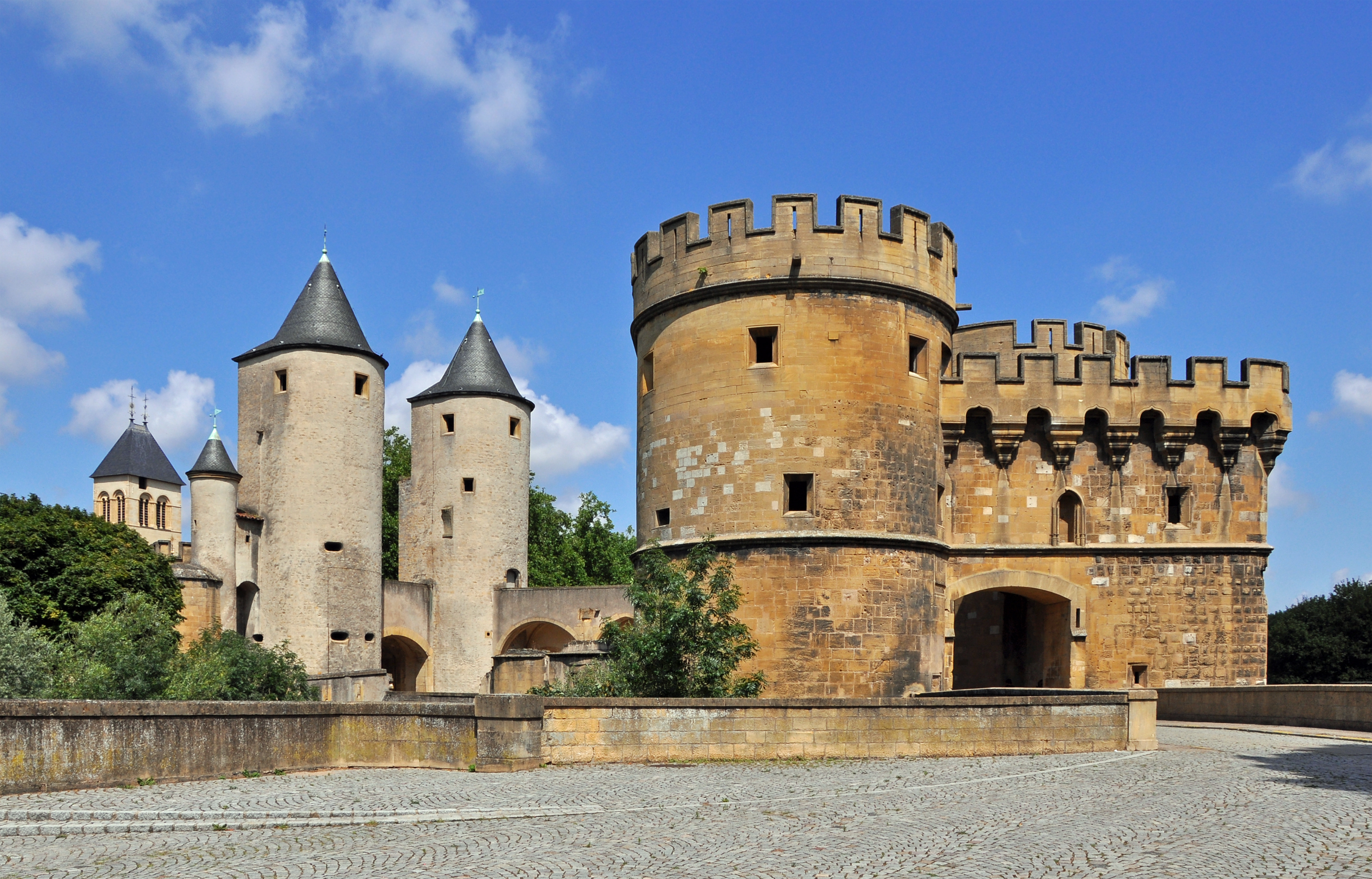 Metz (France): Porte des Allemands